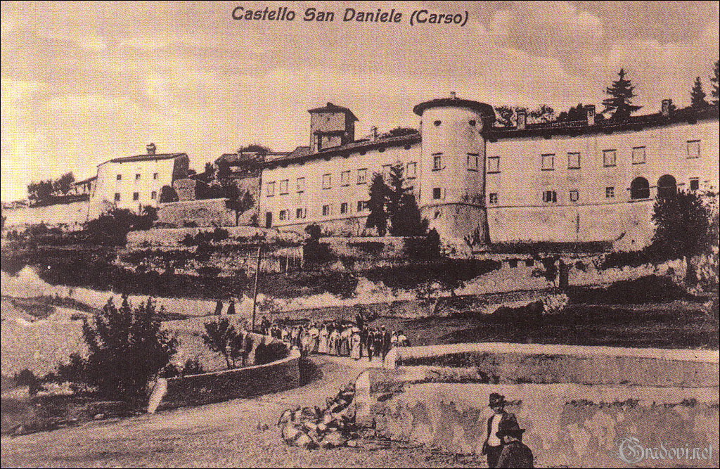 Postcard of Štanjel Castle